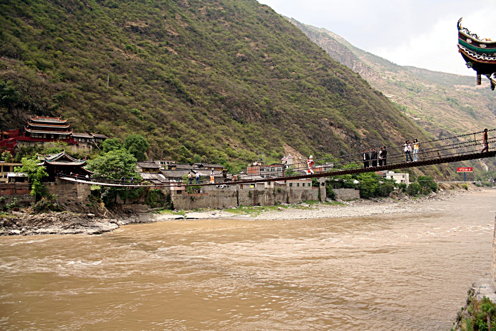 Luding Bridge in Luding, Western Sichuan Province, China.